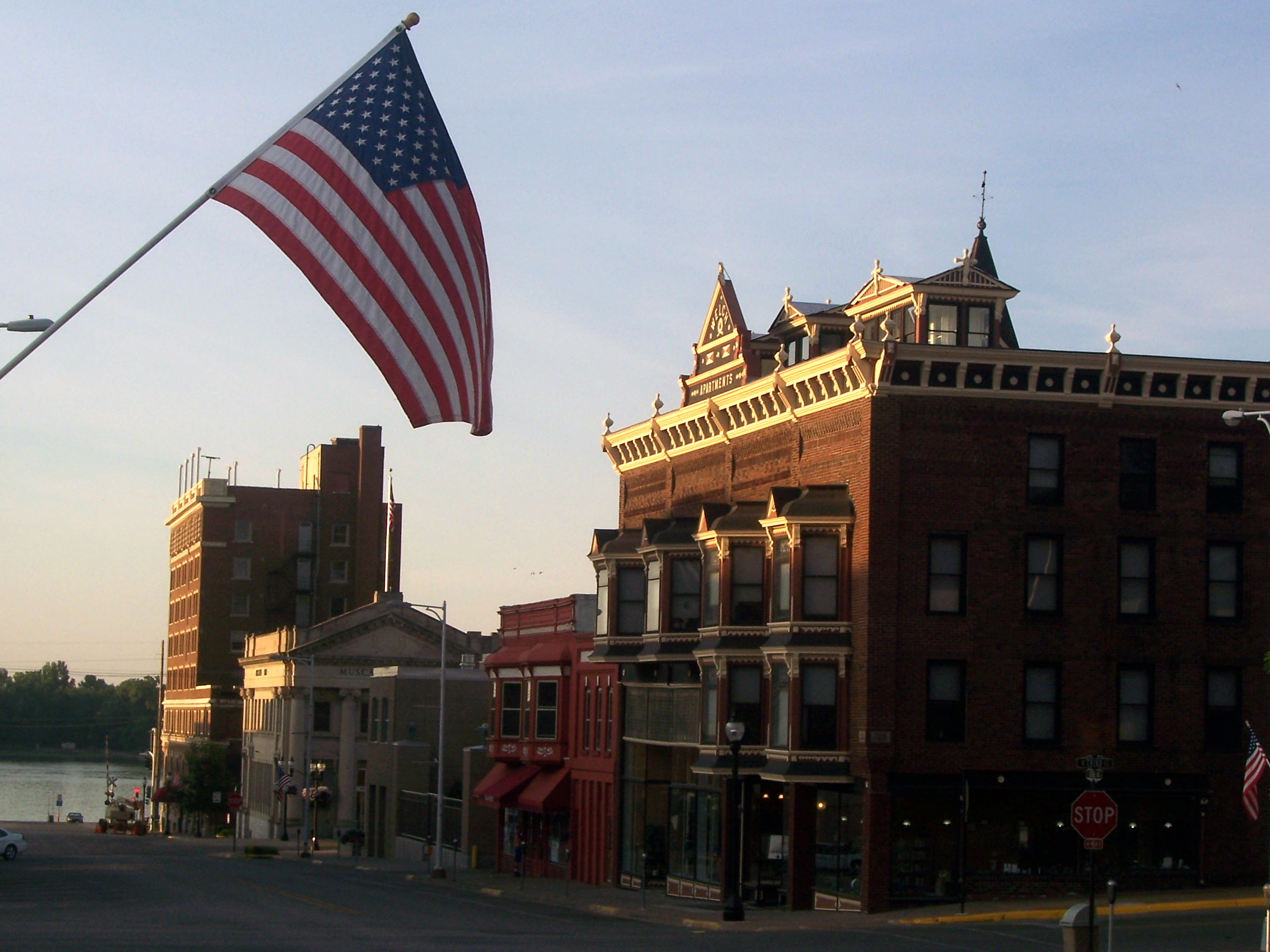 Downtown Muscatine, looking towards the Mississippi River. Photo by me, Henry.